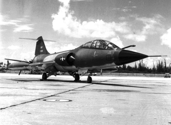 A U.S. Air Force Lockheed F-104D Starfighter of the 198th Tactical Fighter Squadron, 156th Tactical Fighter Group, Puerto Rico Air National Guard at Munez ANGB, Puerto Rico. The 198th TFS flew the F-104 from 1967 to 1975.